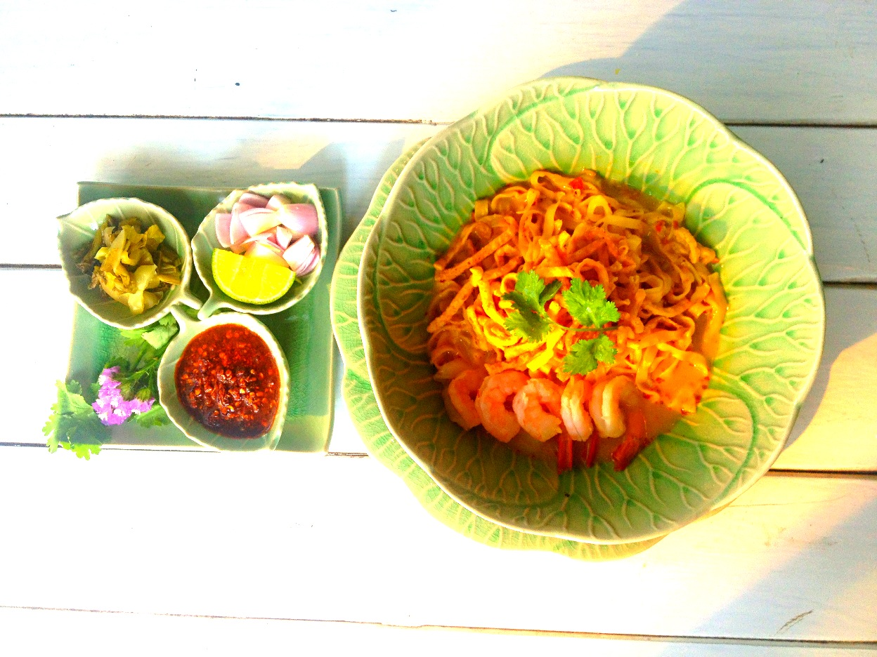 shrimp khao soy from Chanchao Khaosoy in Chiang Mai中文（中国大陆）: 清迈著名的金麺店“皎月金麺”的鲜虾金麺